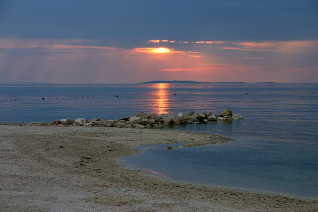 Sunset in Povljana, Croatia